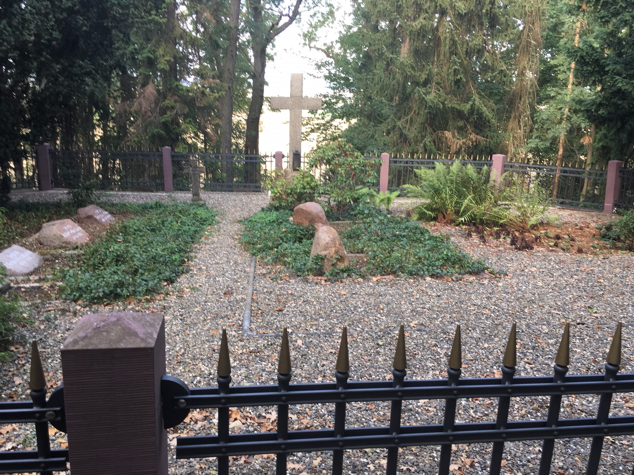 Muenchhausen-Memorial near Groß Dahlem in Lower Saxon